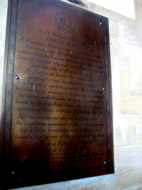 Memorial to Roger Bacon - Dr Mirabilis - Ilchester This memorial which was very difficult to photograph is in the church of St Mary Major. It says: "To the Immortal Memory of ROGER BACON A Franciscan Monk and also a free enquirer after true knowledge. His wonderful powers as mathematician, mechanician, optician, astronomer, chemist, linguist, moralist, physicist and physician gained him the title of "Doctor Mirabilis". He first made known the composition of gunpowder and his researches laid the foundations of modern science. He prophesied the making of machines to propel vessels through the water without sails or oars, of chariots to travel on land without horses or other draught animals; of flying machines to traverse the air. He was imprisoned, starved and persecuted by the suspicious ignorance of his contemporaries but a fuller knowledge now acclaims and honours him as one of the greatest of mankind. Born at Ilchester in 1214 Died at Oxford in 1294 This tablet is erected to commemorate the Seventh Centenary of Roger Bacon's birth by a few admirers of his genius AD 1914" For